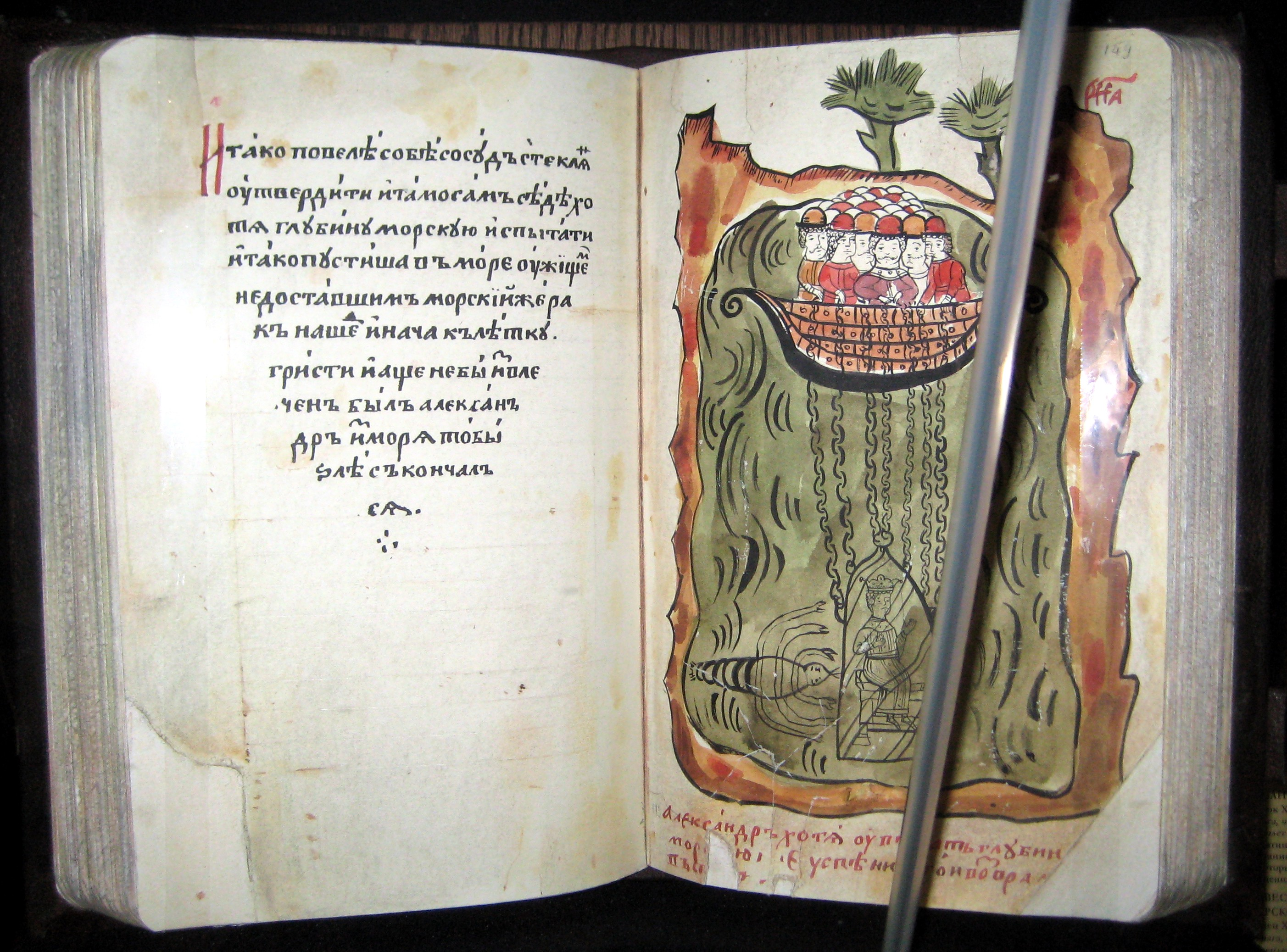 "Alexandria Serbskaya", novel about A.the Great. 17 century. Alexander descends into the sea in a glass vessel.